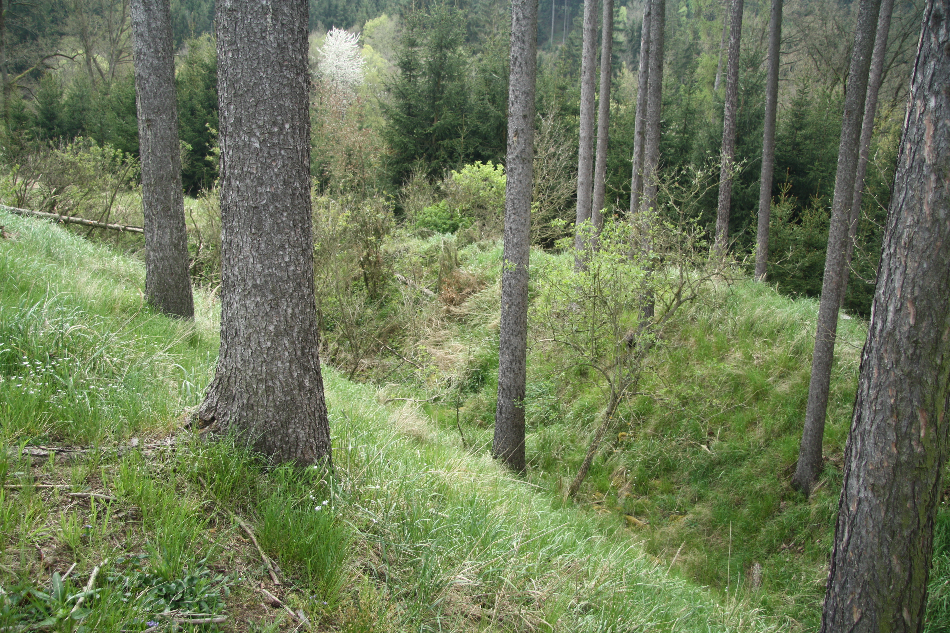 Moat of former Lesní Jakubov castle in Lesní Jakubov, Třebíč District.